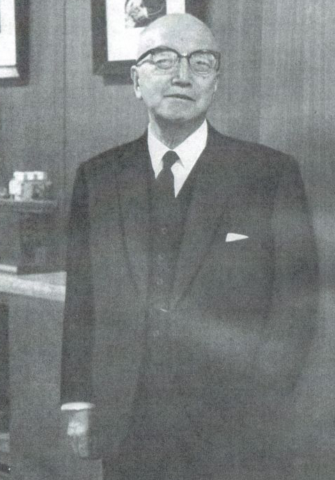 Tarō Yamashita